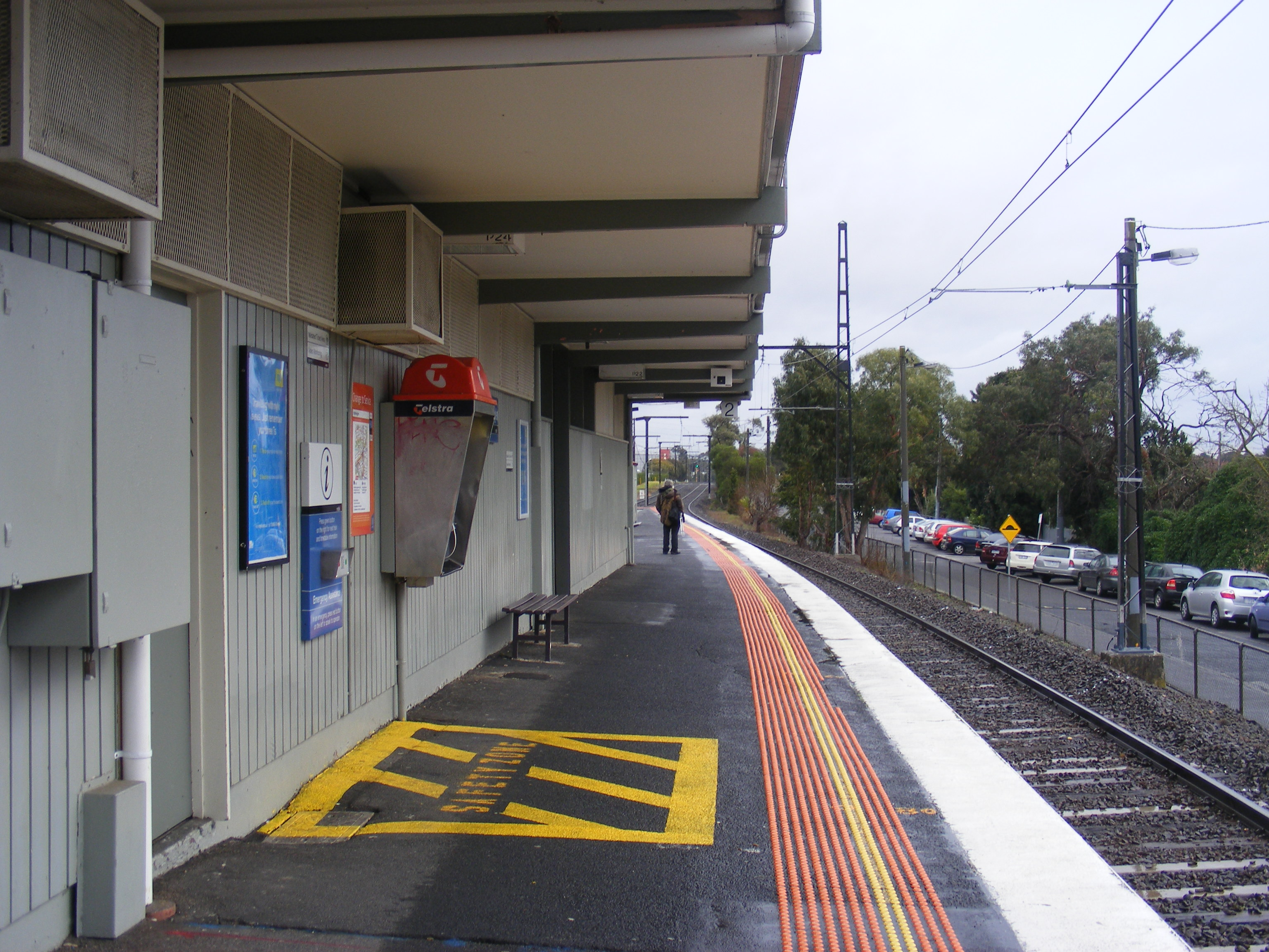 Looking west from platform 2.